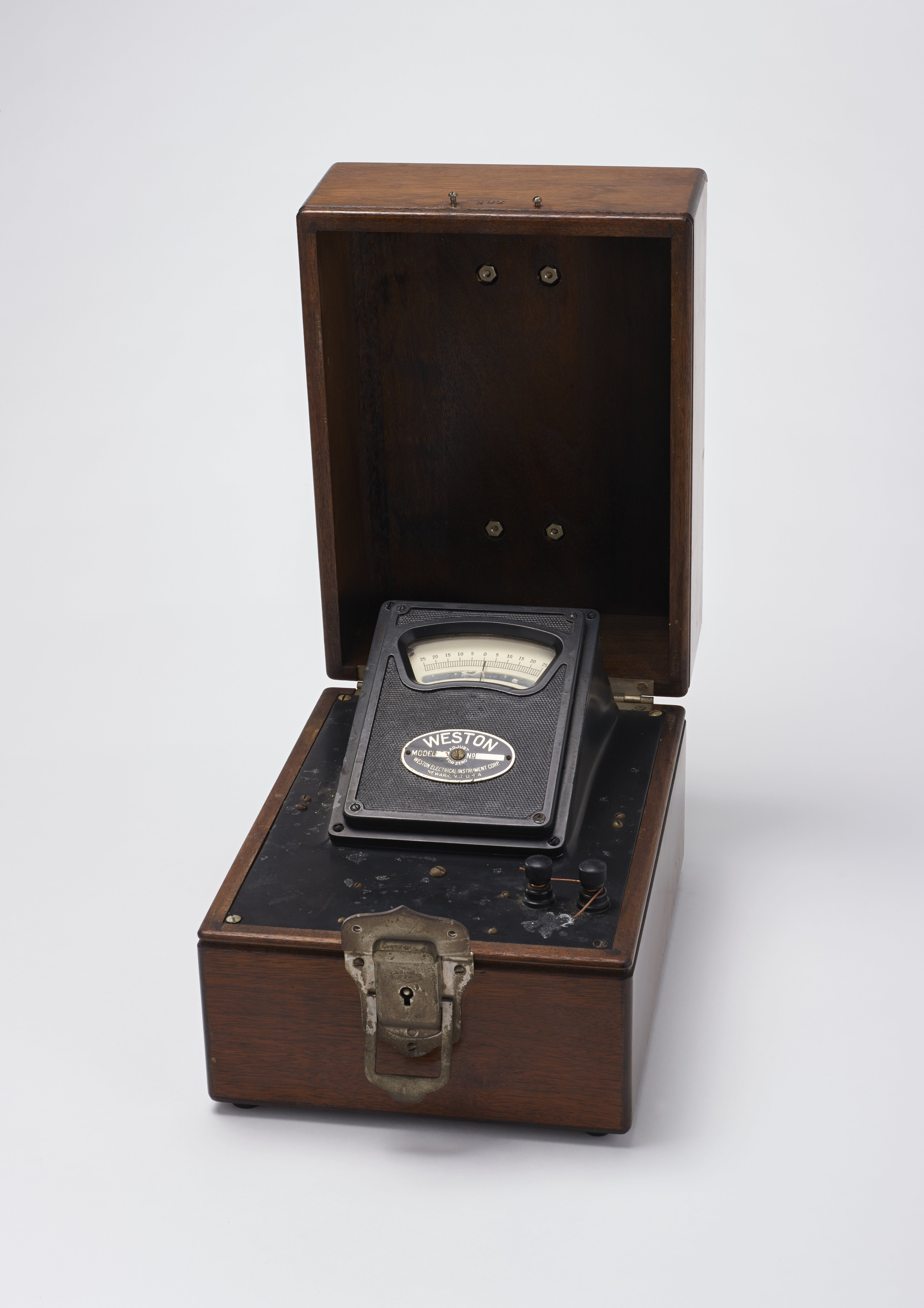 Weston Galvanometer Rectangular wooden box; brown leather handle attached to top with metal fasteners; front has a steel lock screwed to it; lock is stamped with manufacturer; four hard black rubber feet on bottom; top attached with two brass hinges; black painted aluminium instrument panel with raised meter; meter has a glass window over measurement bar; metal plaque attached to meter identifying the manufacturer; on flat part of panel are two plastic knobs; around each knob is a piece of copper wire; typed instructions are included. Galvanometers detect and measure small amounts of electrical current through the use of a magnetic needle or a coil in a magnetic field.